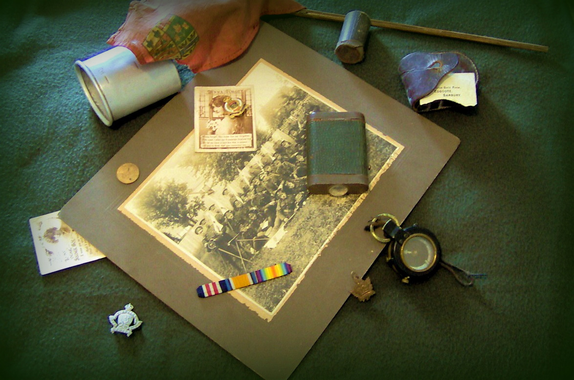 artifacts from WWI, from a soldier who fought at Vimy